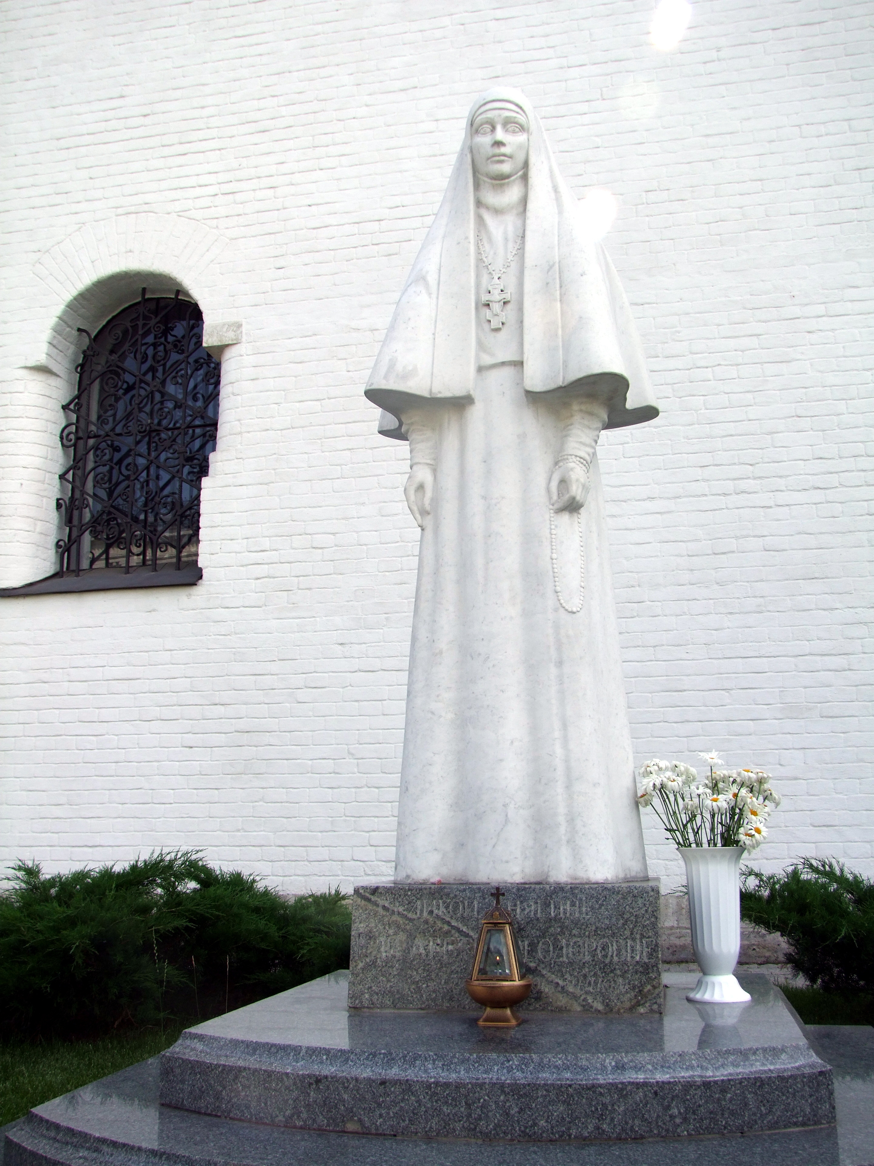 Marfo-Mariinsky Convent (Moscow). Statue of Grand Duchess Elizabeth Feodorovna of Russia.